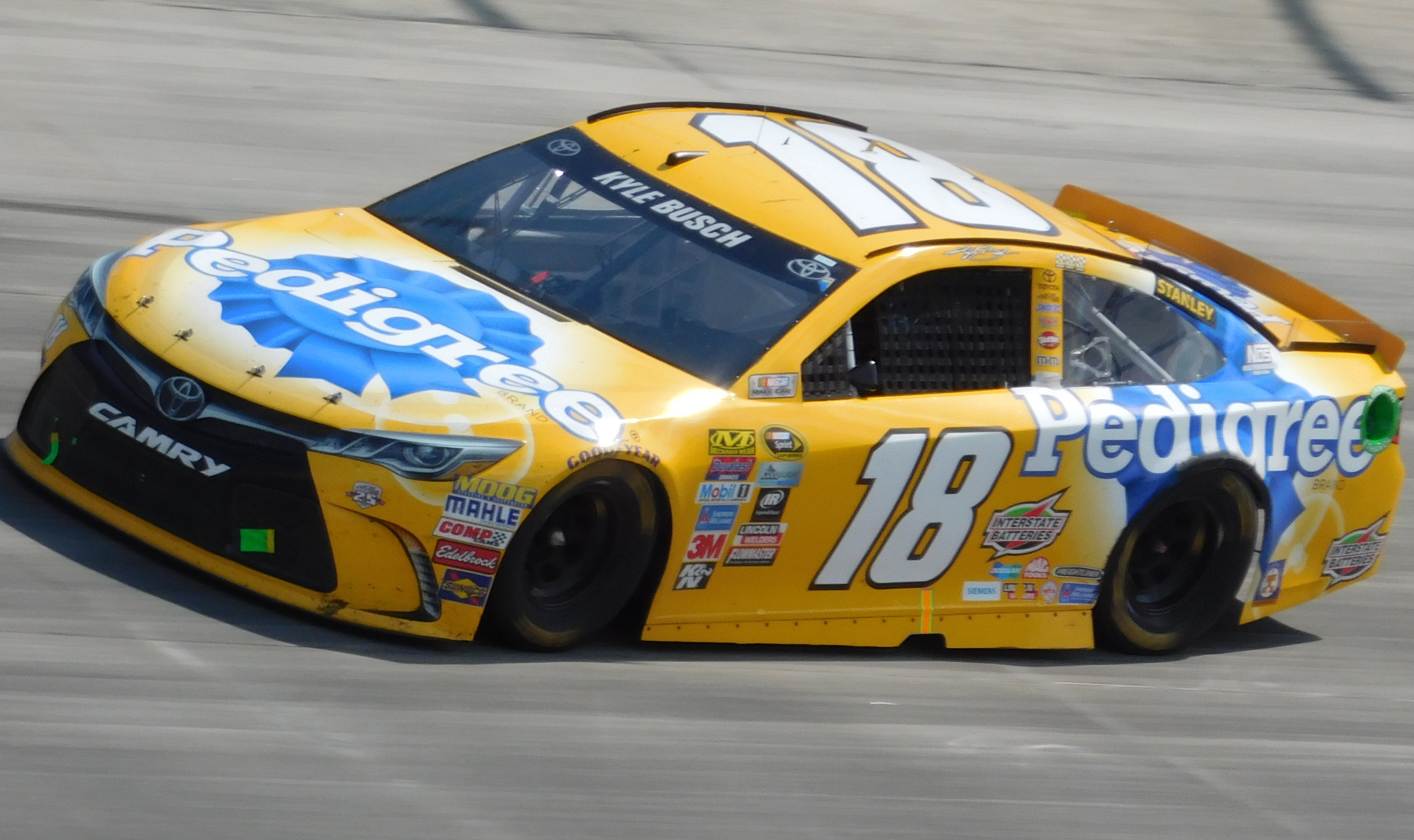 Kyle Busch's No. 18 Pedigree Toyota at Dover International Speedway in 2016